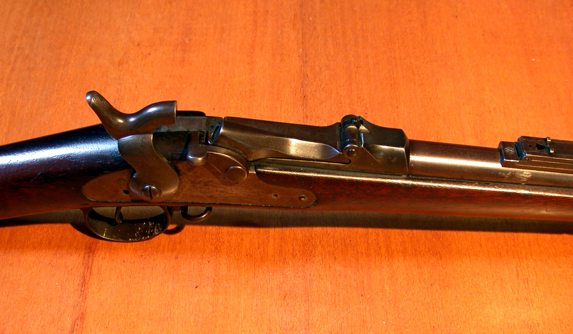 Springfield U.S. Model 1888 Trapdoor rifle, breech